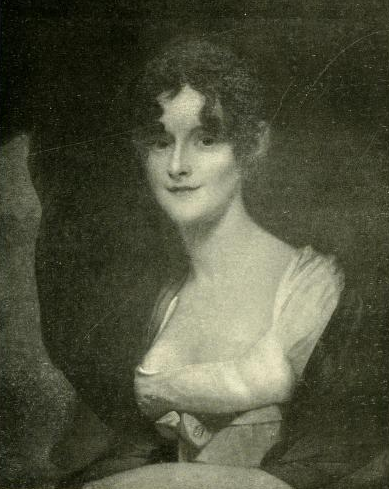 Portrait of Sarah Inman Linzee Cunningham (1787-1820) (first wife of J.L Cunningham of Boston, Massachusetts), by Gilbert Stuart. She was the daughter of Captain John Linzee.